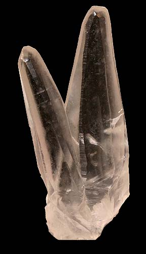 Calcite Locality: Municipio de Rodeo, Durango, Mexico (Locality at ) There is a large twinned crystal from Rodeo on this auction as well. This is a gorgeous example of the scalenohedral crystals from there, with the bevels and silky luster that make them look like no other calcites from anywhere else. This specimen is particularly elegant, the way two perfect crystals rise next to one another. 4.5 x 2.0 x 1.3cm